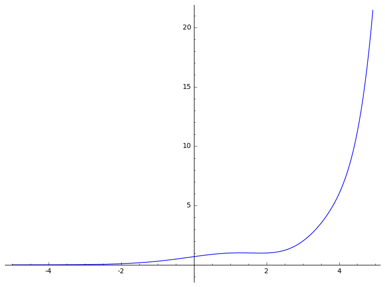 Hadamard's Gamma function plotted over part of the real axis. Unlike the classic Gamma function it is holomorphic, there are no poles. Created via Sage Cell Server with plot(diff(ln(gamma(1/2-x/2)/gamma(1-x/2)), x)/gamma(1-x), x, -5, 5)